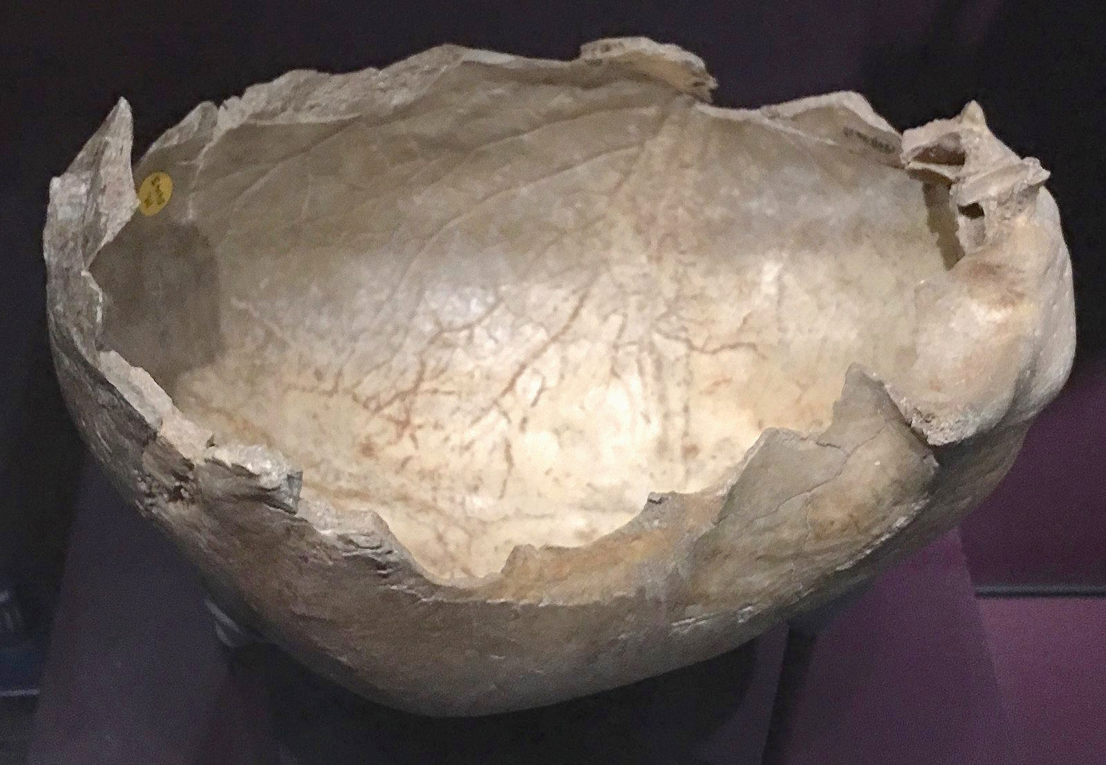 A real skull cup, Natural History Museum, London. Found in Gough's cave, Sommerset, England. About 14,700 years old, this skull bears cut marks inflicted shortly after death to remove soft tissues and shape the skull into a cup.